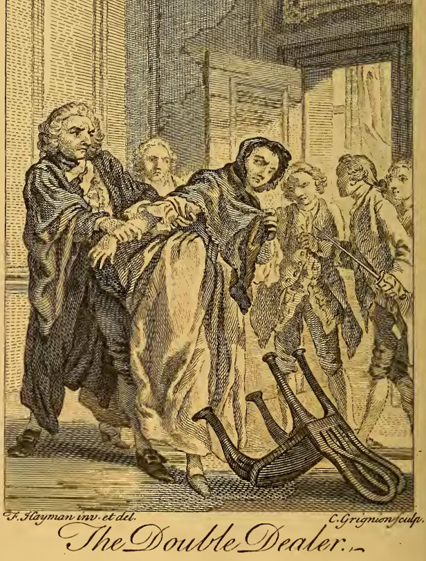 Acte V scene 17 of The Double Dealer by Congreve, scanned from the 1761 edition. Lord Touchwood drives lady Touchwood from his home. In the background, Mellefont threatens Maskwell with a sword.